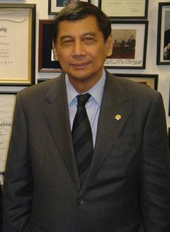 Indonesian Defense Minister Juwono Sudarsono.